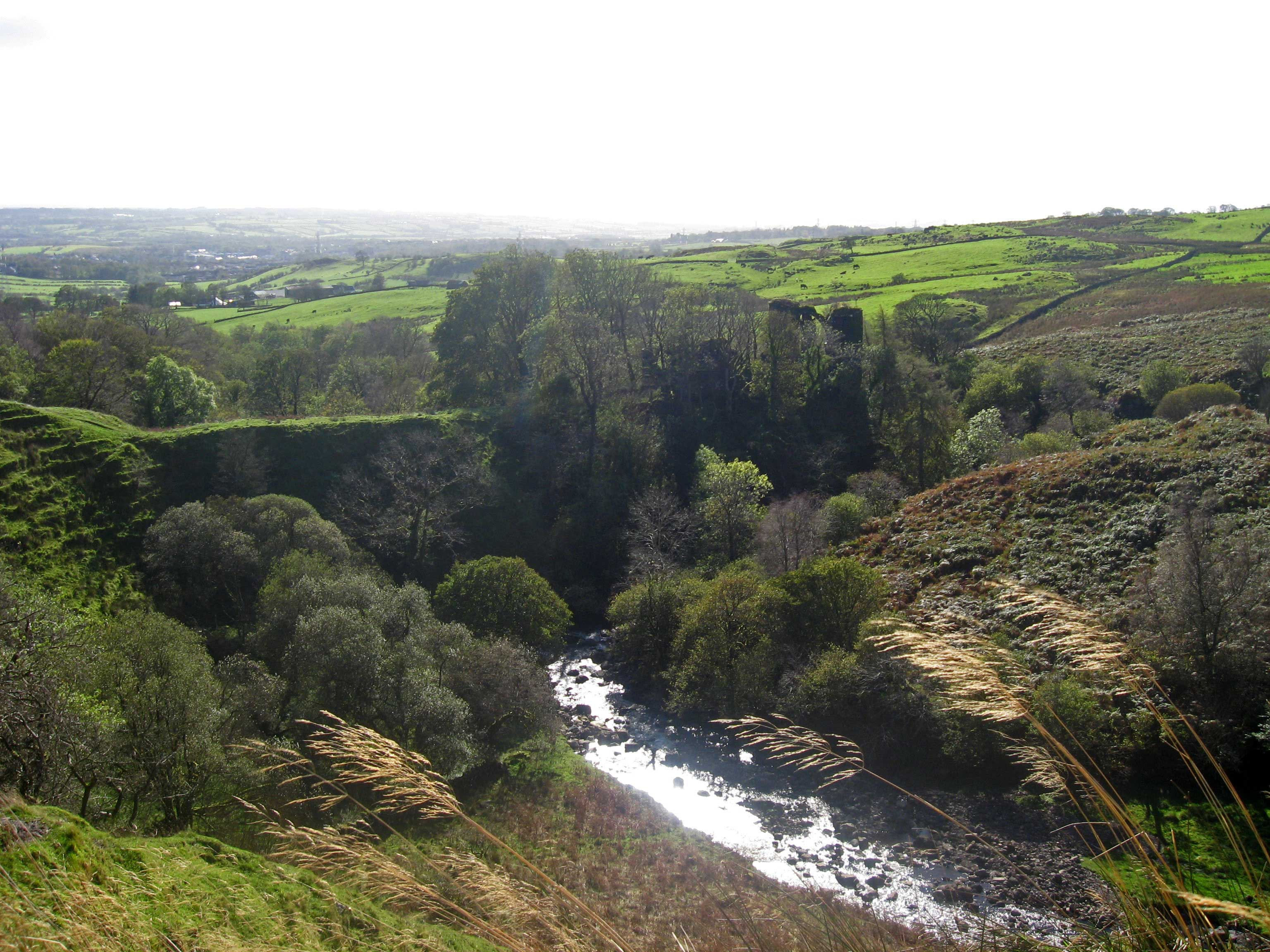 The River Garnock reflecting the sun as it bends west in the ravine beneath Glengarnock Castle, seen from the north